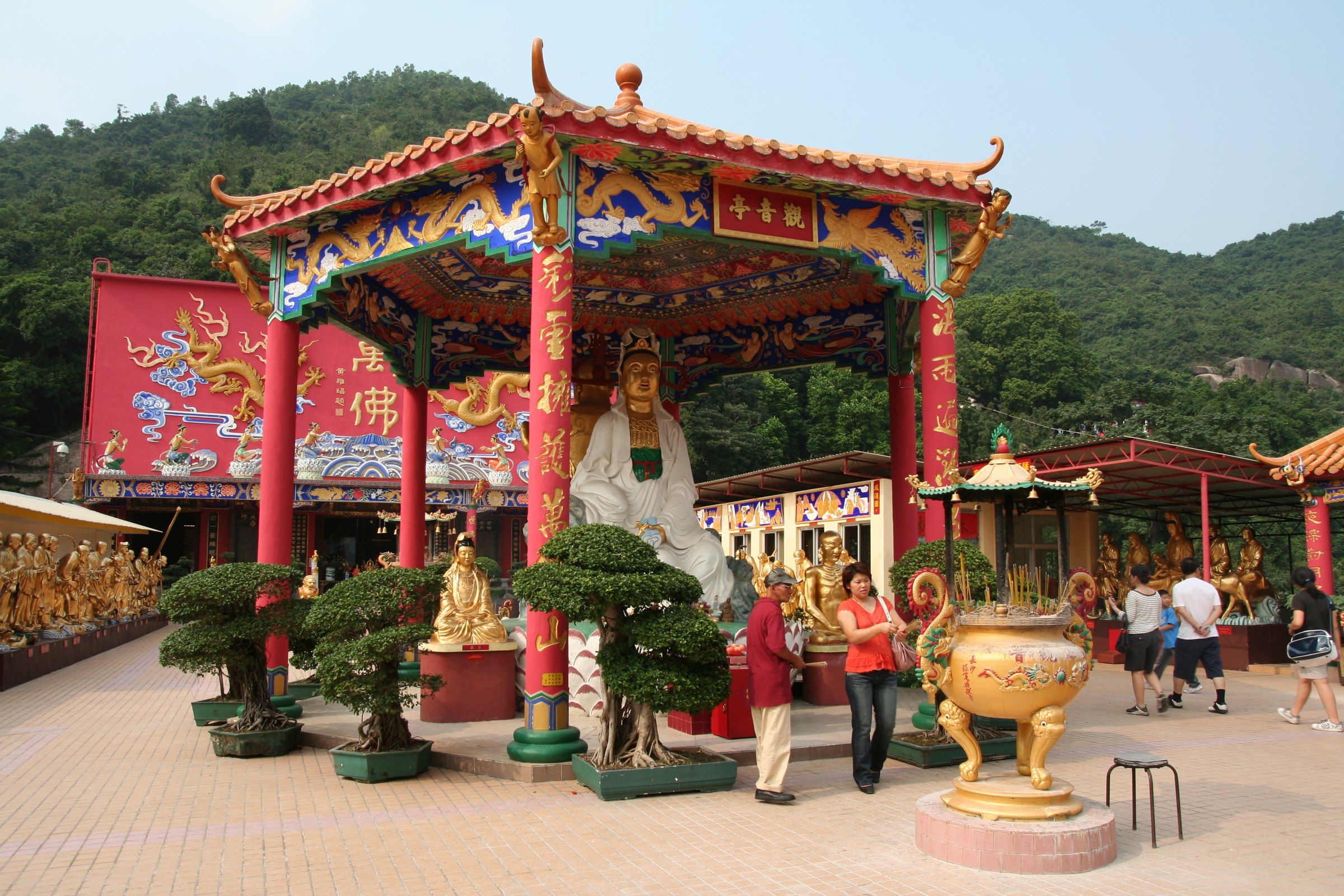 Ten Thousand Buddhas Monastery (萬佛寺) is a Buddhist temple in Shatin, Hong Kong. Photograph author is me.